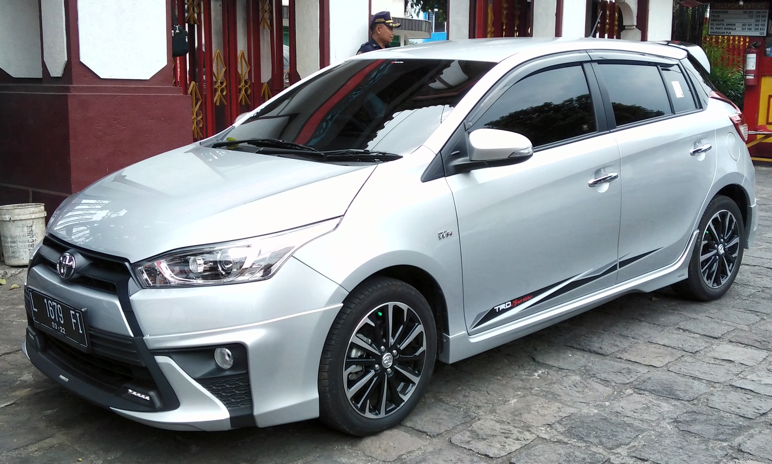 2017 Toyota Yaris TRD Sportivo photographed in Malang, East Java, Indonesia.